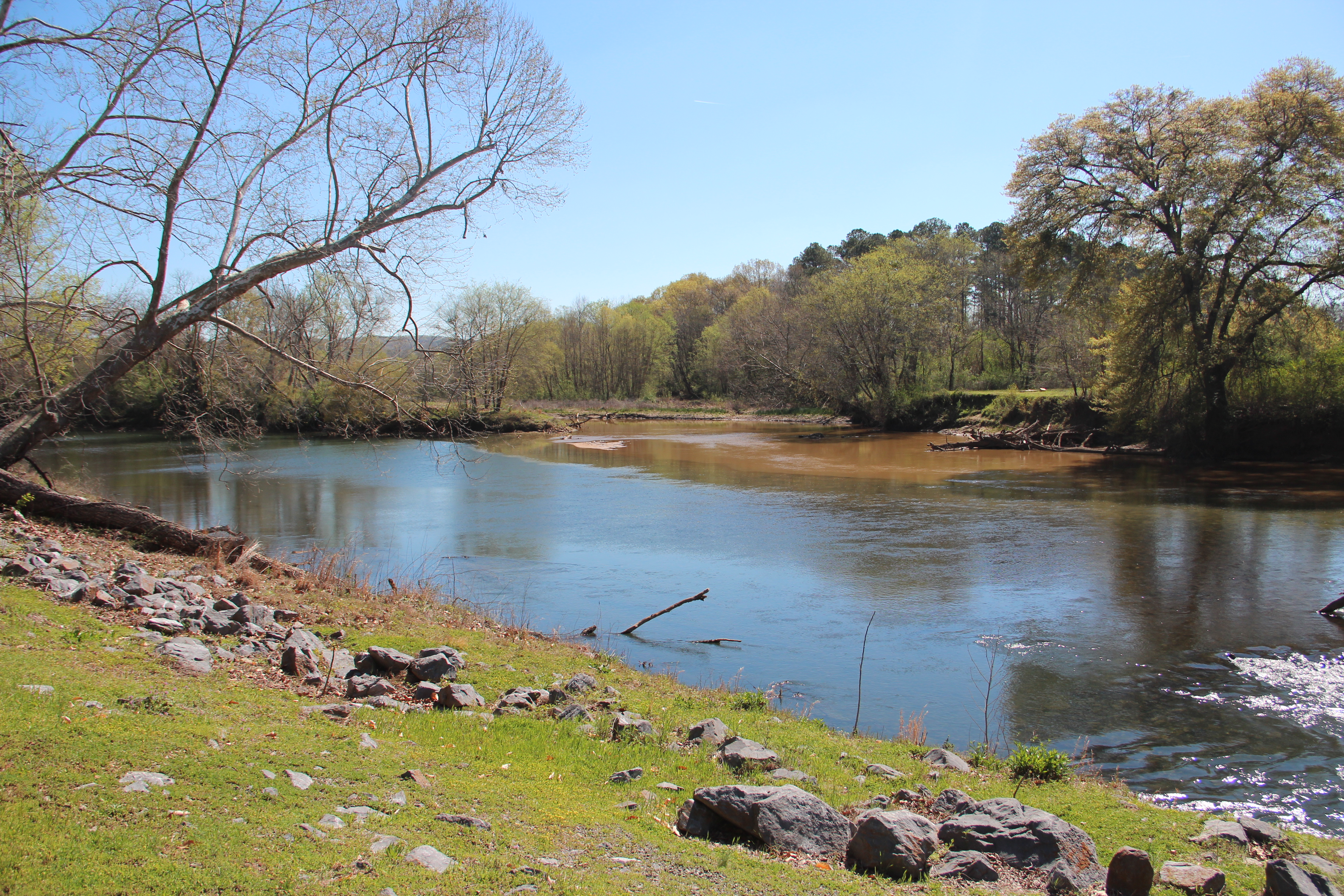 Confluence of Pumpkinvine Creek and Etowah rivers, seen from the Etowah Mounds